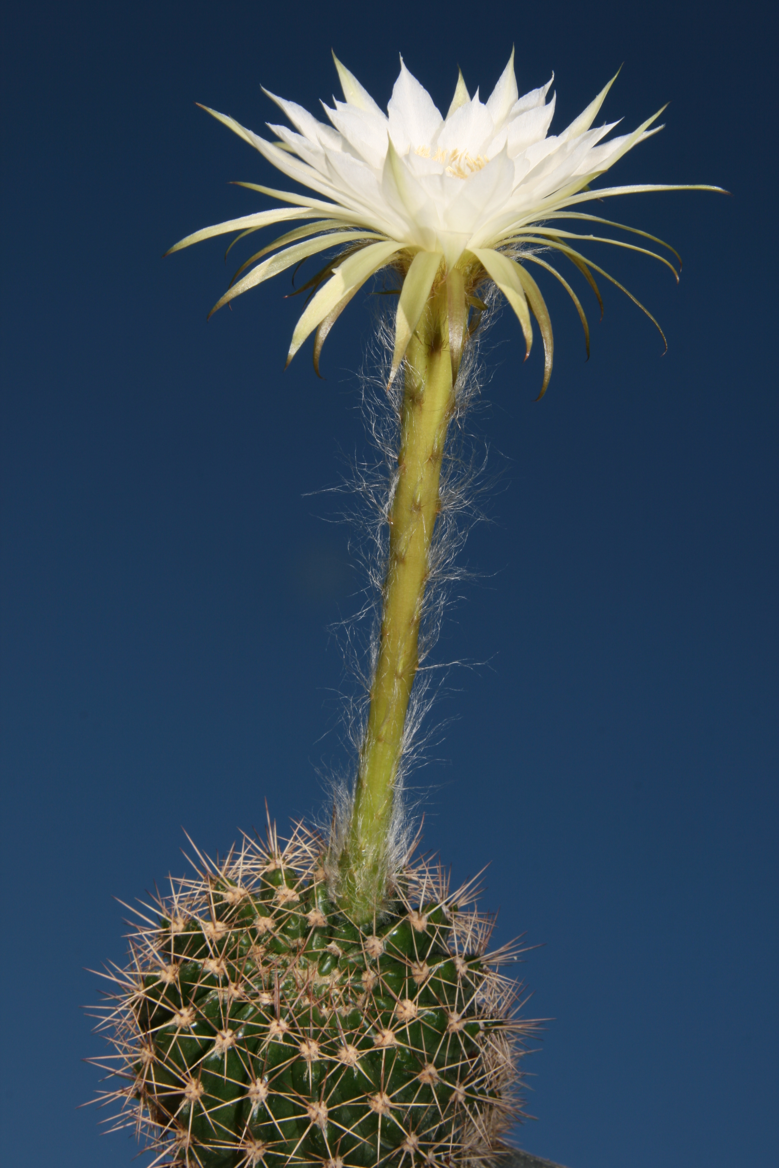 flowering plant from holotype collection, Pantanal, Mato Grosso do Sul, Brasil